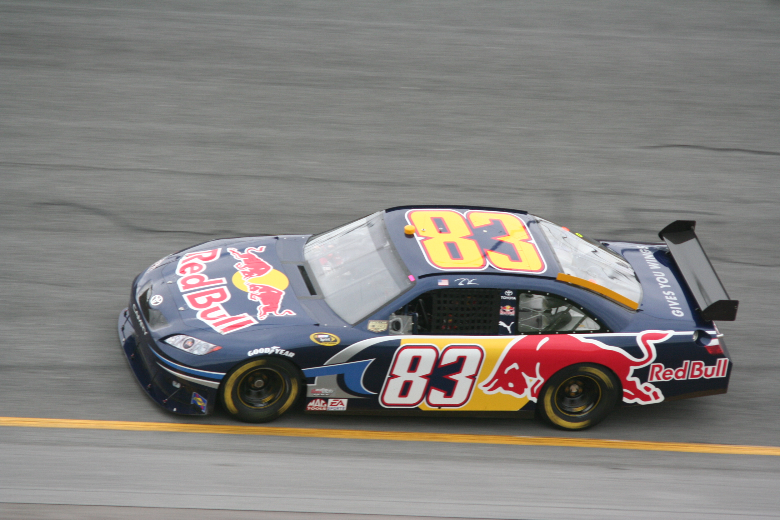 Shot by The Daredevil at Daytona during Speedweeks 2008